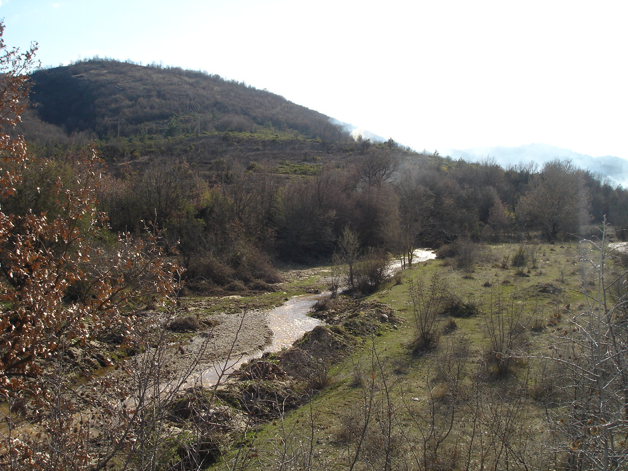 Suva Reka (Dry River) southwest from Skopje, Macedonia